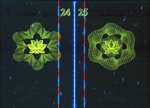 Vietnamese Passport Visa Page under black light